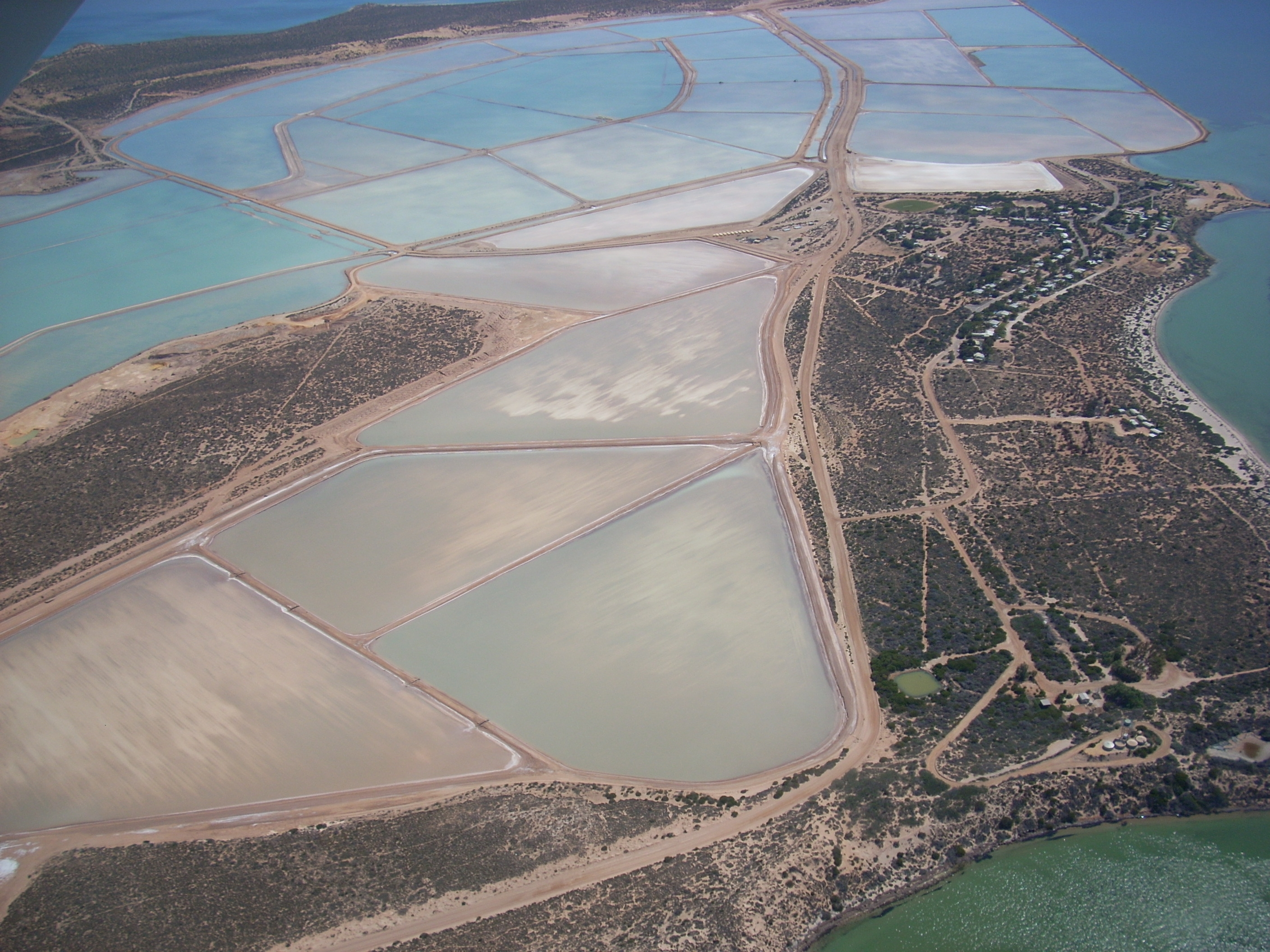 Aerial view ot the Useless Loop townsite and salt drying flats in Shark Bay, Western Australia